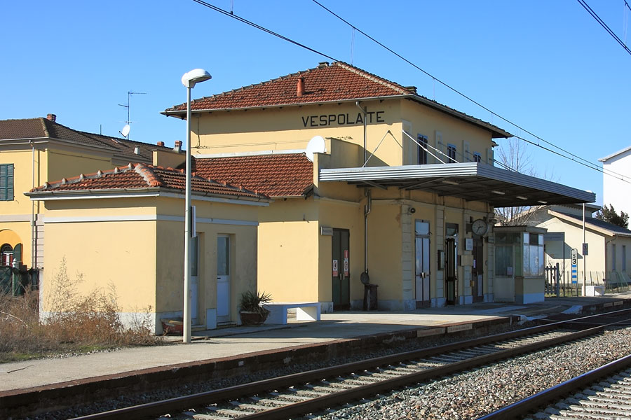 Train Station, Vespolate, Novara, Italy